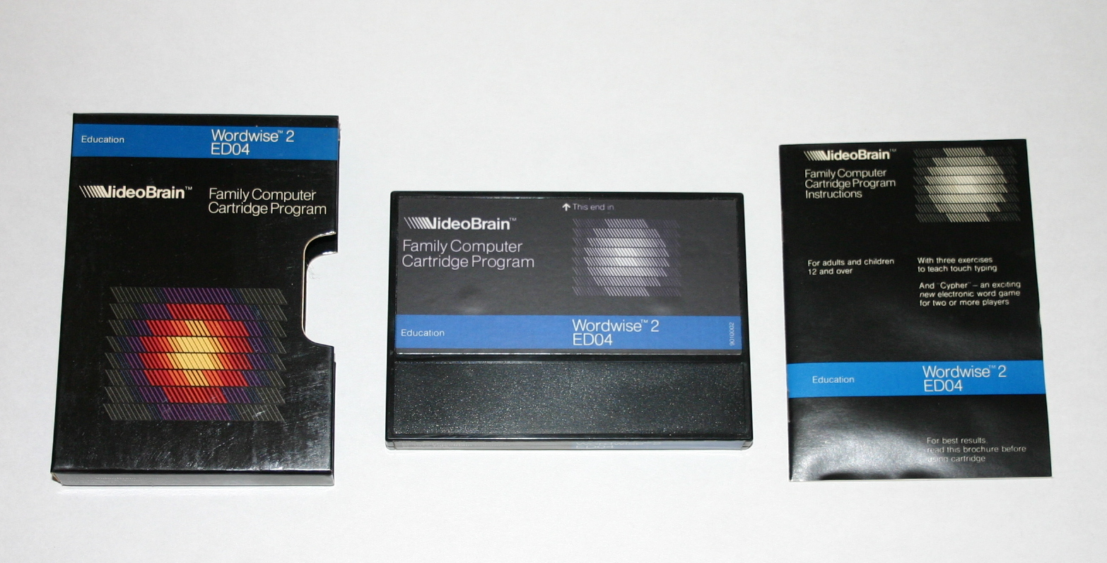 This is a photo of a ROM software cartridge (center) for the VideoBrain Computer, together with its package (left) and its manual (right)